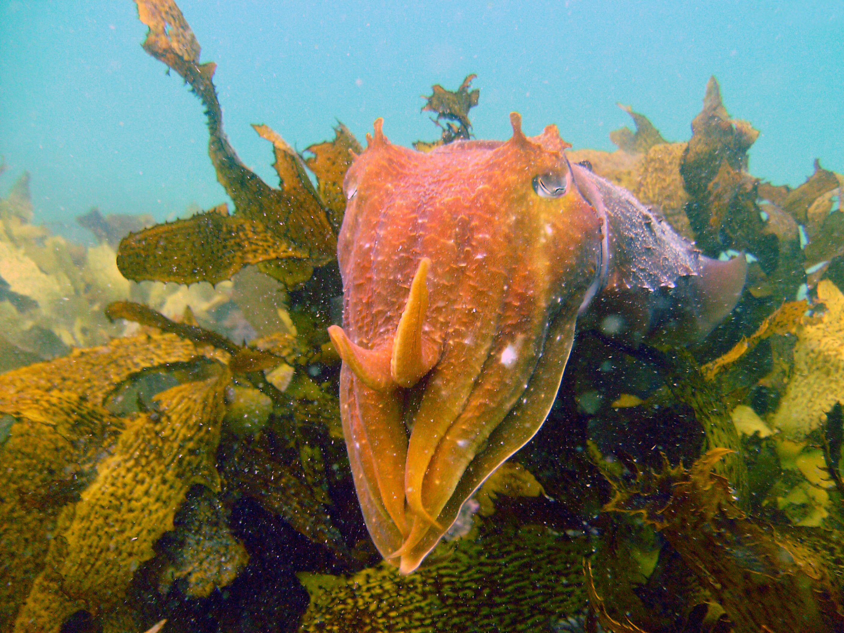 Giant Cuttlefish at Shelly Beach, NSW